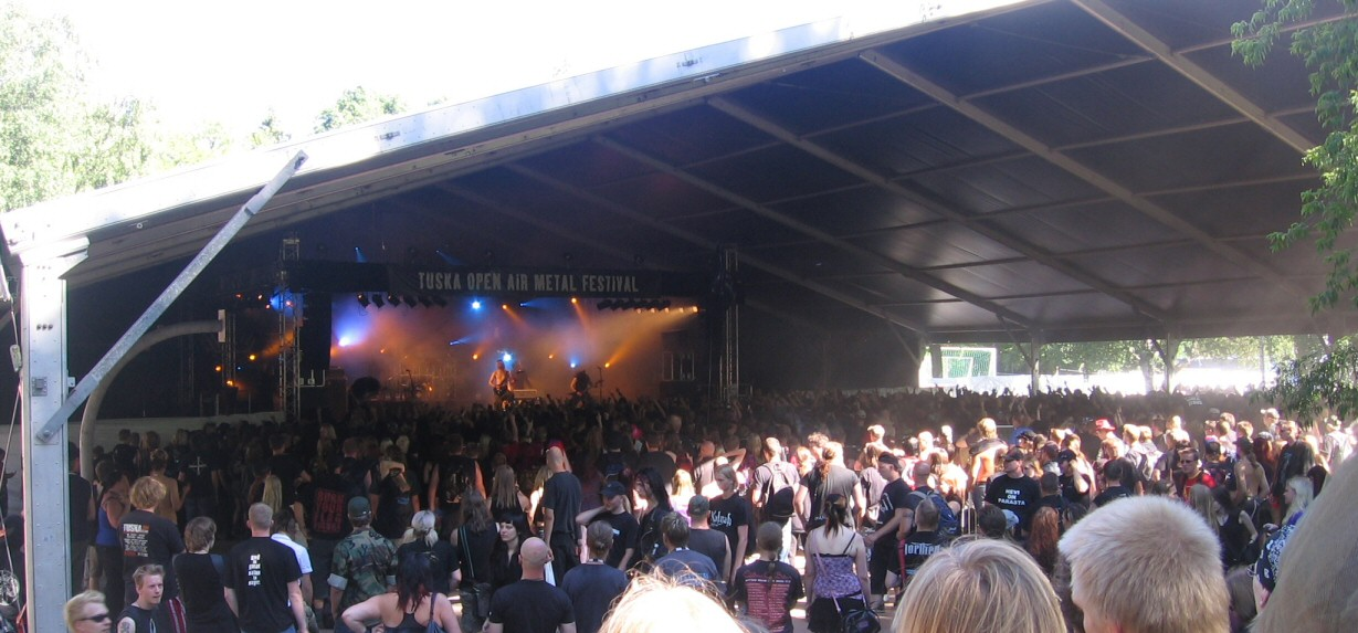 Sue Stage at Tuska Open Air Metal Festival 2006, Finnish heavy metal group Norther on stage.